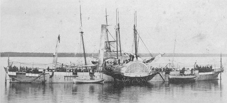 USS Miami (1861), sidewheel gunboat used in the American Civil War